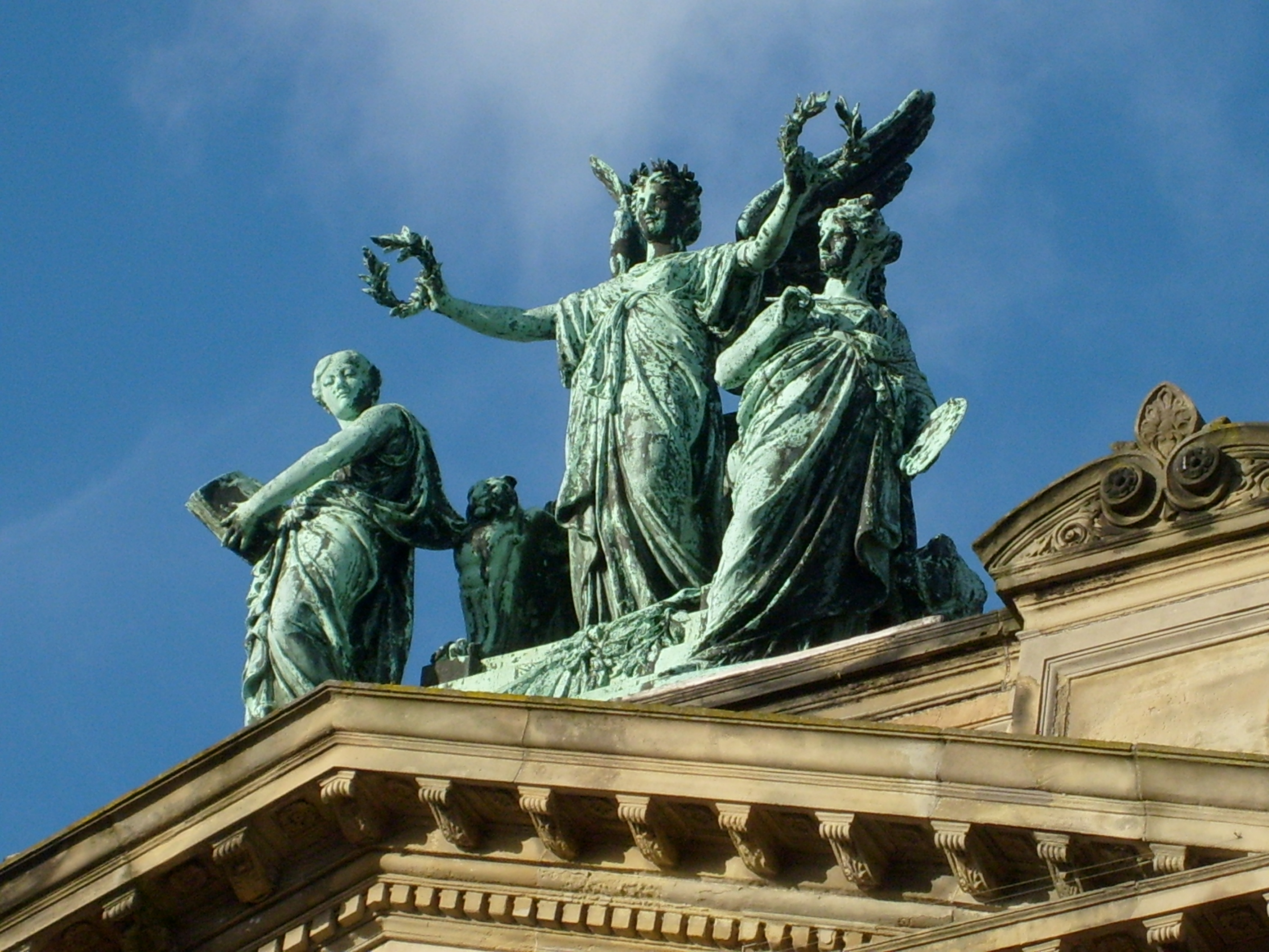 Sculpture on top of the Teylers Museum, Spaarne, Haarlem, Netherlands by Bart van Hove. Sculpture is made in bronze. Date: 1886. Title: Science and Art crowned by Fame